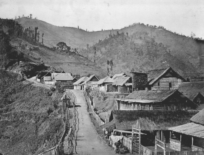 The mountain village Tosari in the Tengger Mountains